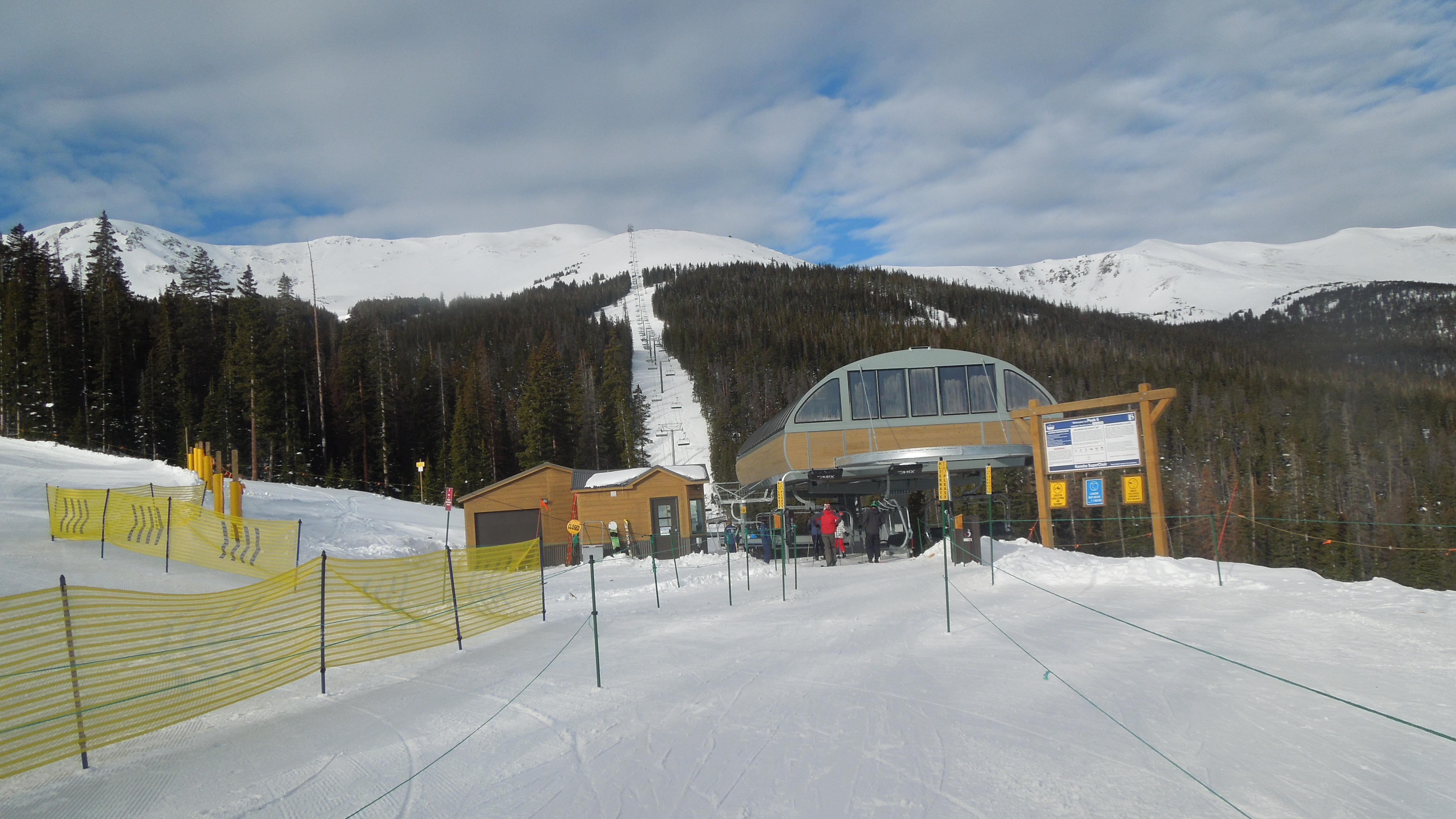 Photo of the Kensho SuperChair at Breckenridge Ski Resort. Taken January 20, 2014. DReifGalaxyM31 (talk) 05:45, 15 January 2014 (UTC)